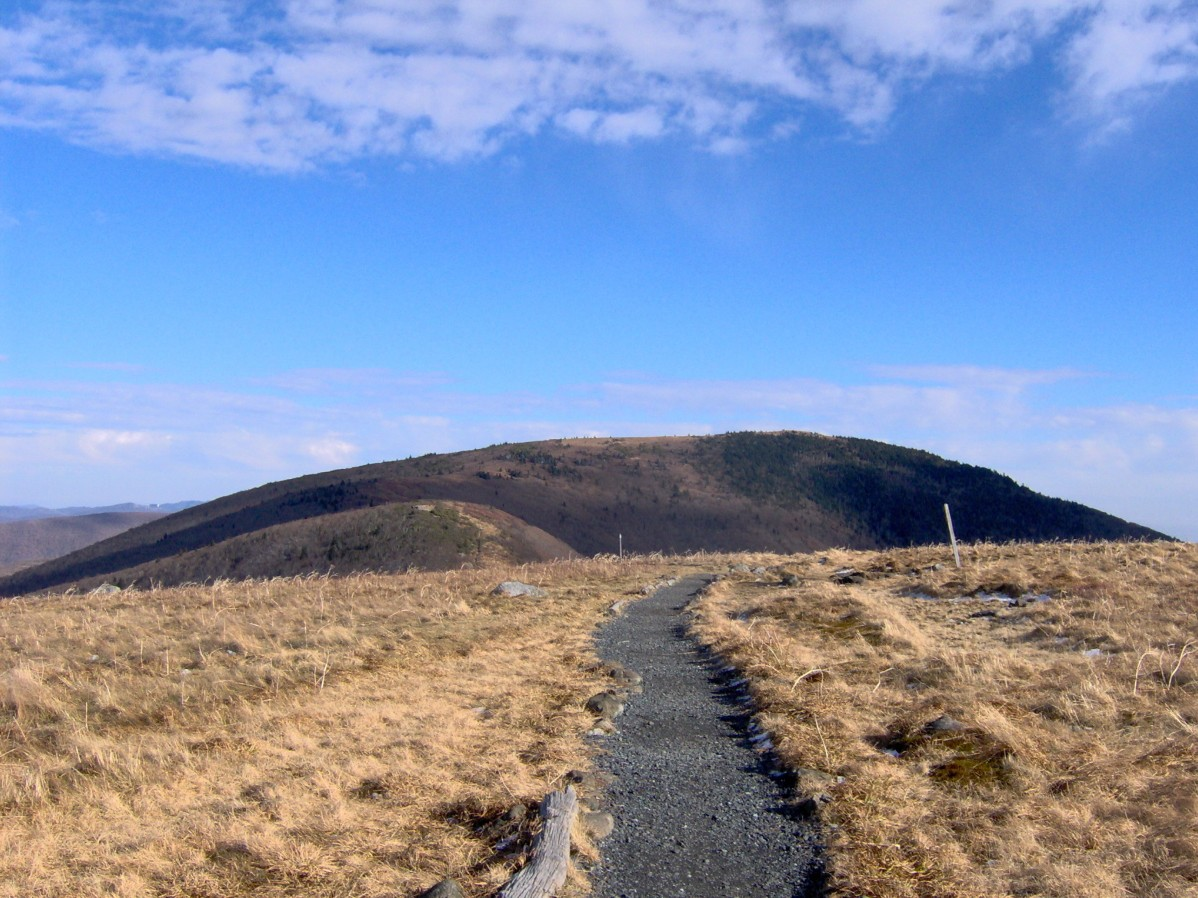 Looking east along the Appalachian Trail as it crosses Round Bald (el. 5,826 feet, 1,776 meters) in the Roan Highlands of Tennessee and North Carolina. Jane Bald is on the lower left. The massive Grassy Ridge Bald dominates the horizon.